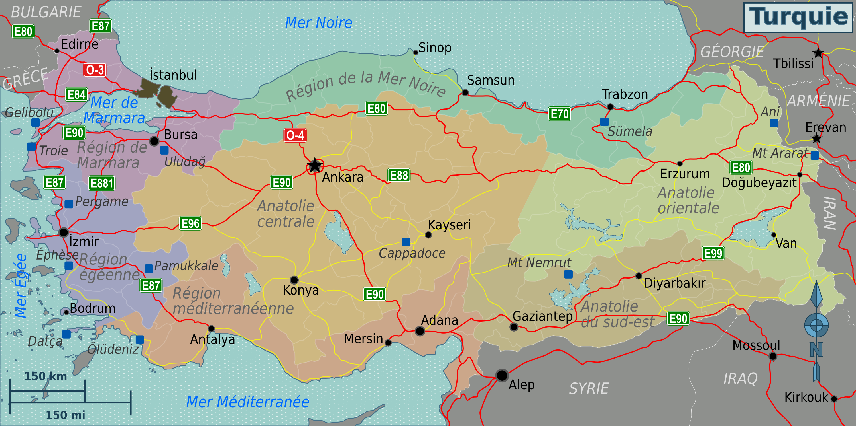 Turkey regions map for use on Wikivoyage, French version